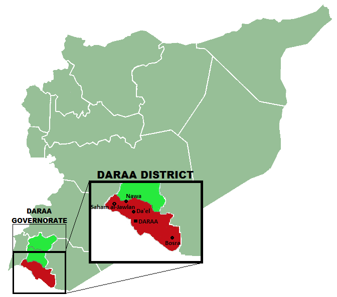 Daraa District Map showing 5 important cities within Daraa Governorate's districts map.